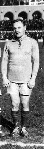 Swedish footballer Theodor Malm in lineup before international game against Denmark, 5 of october 1913